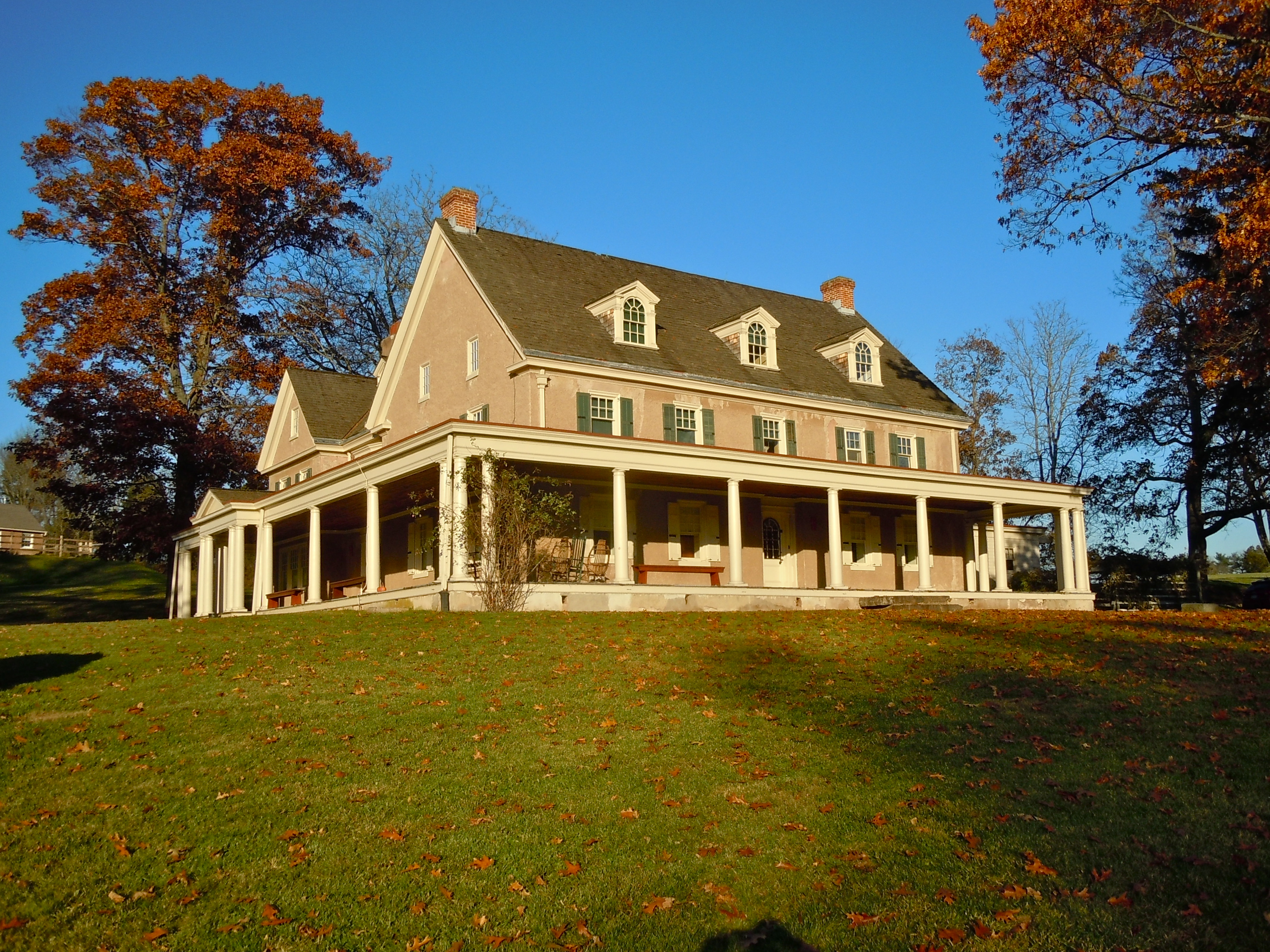 Pennypacker Mansion on the NRHP since November 7, 1976. At 5 Haldeman Road, Schwenksville, Montgomery County, Pennsylvania. Just east of Perkiomen Creek.